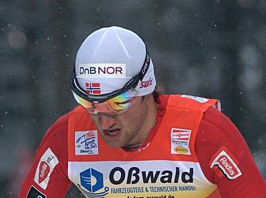 Petter Northug at the Tour de Ski 2010 in Oberhof